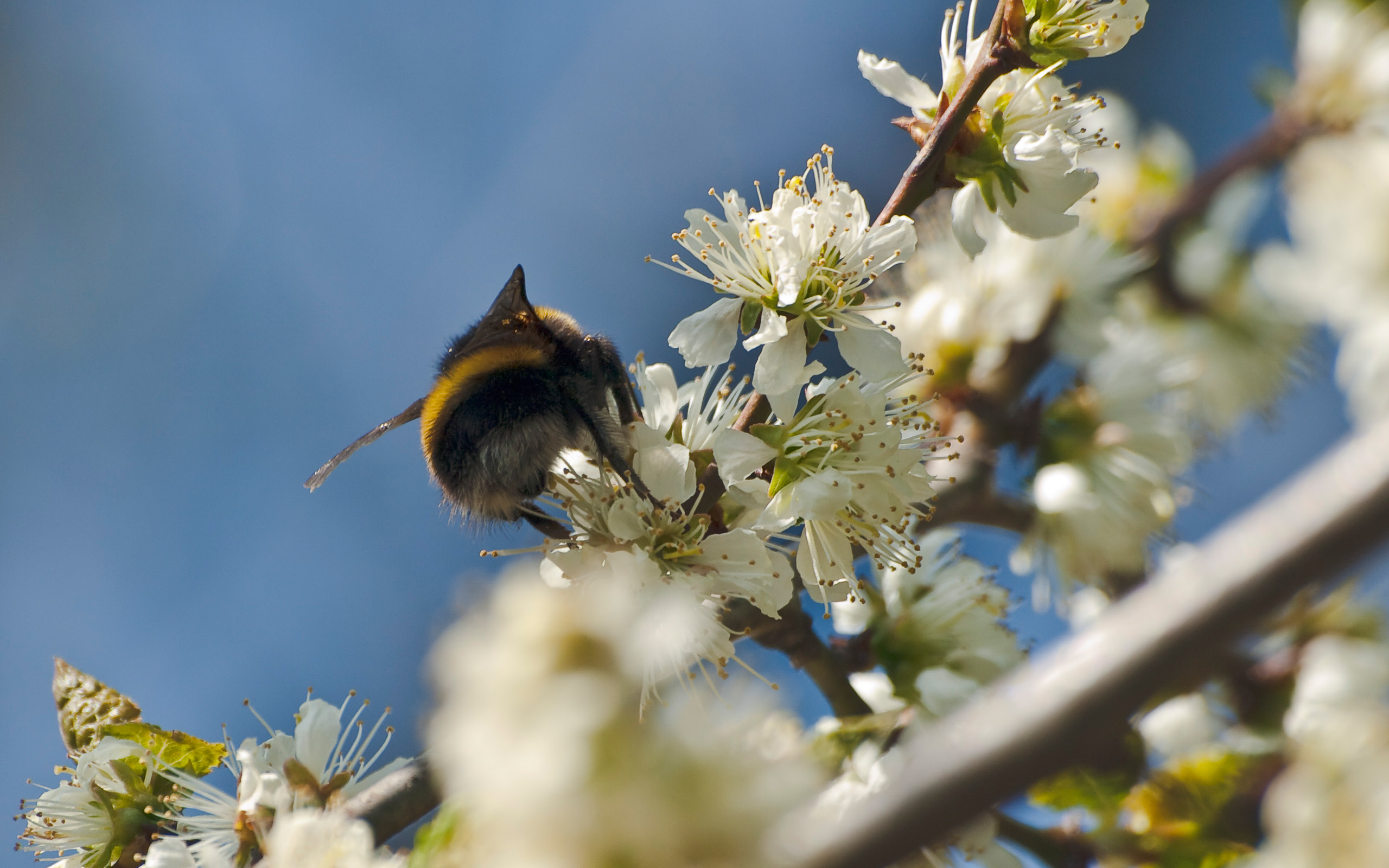 A Bumblebee servicing a Briançon Apricot (Prunus brigantina).